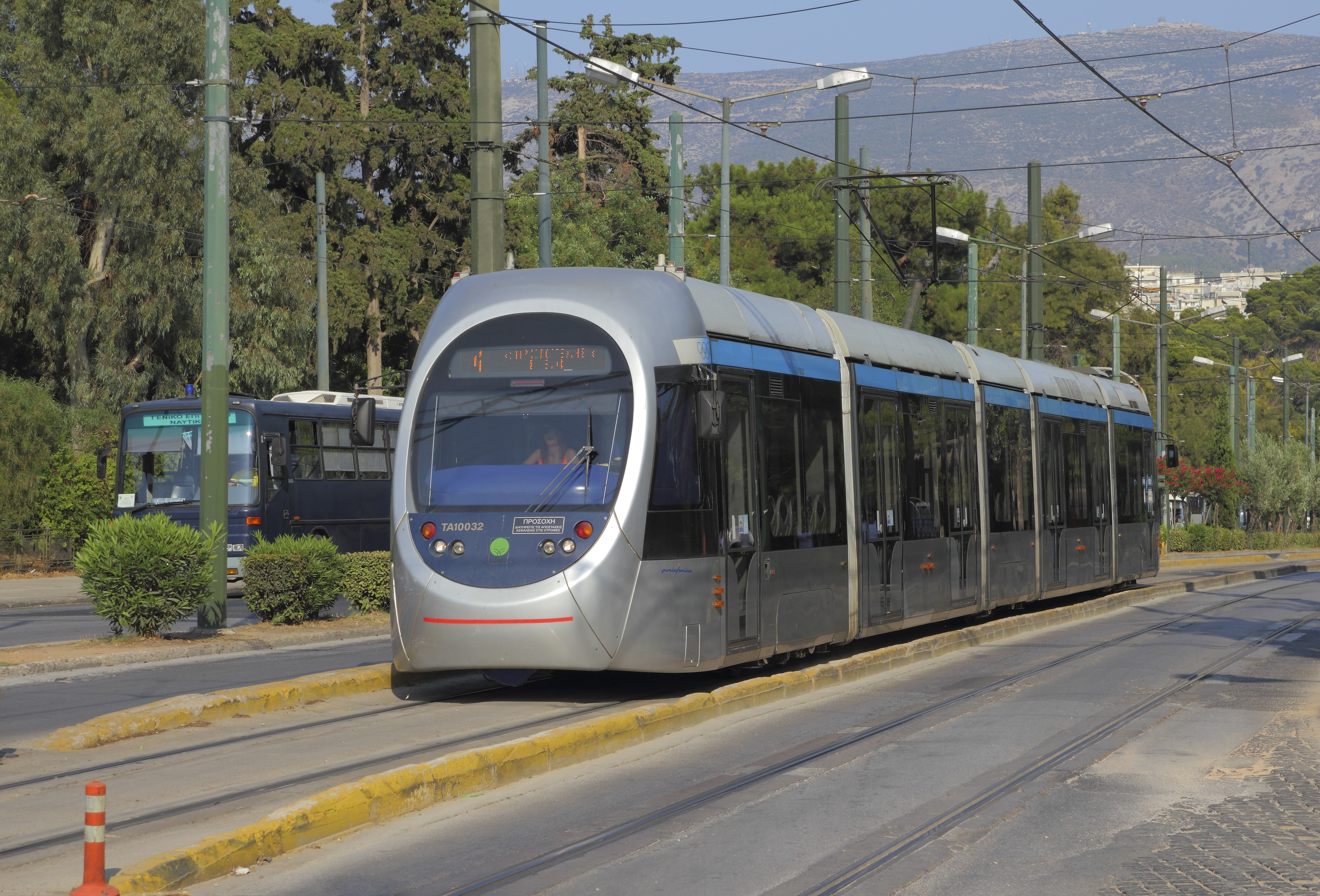 Tram at Vasilissis Olgas Avenue in Athens (Attica, Greece)